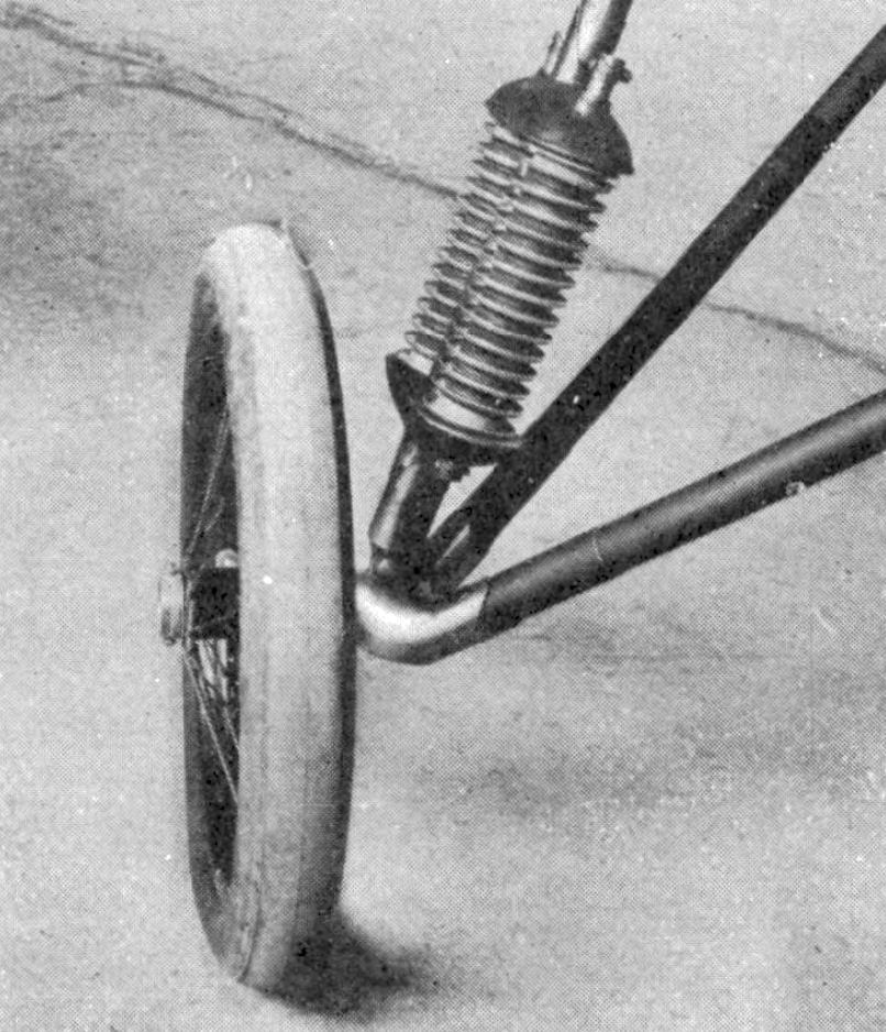 Ikarus L-1 photo from L'Aéronautique August,1929